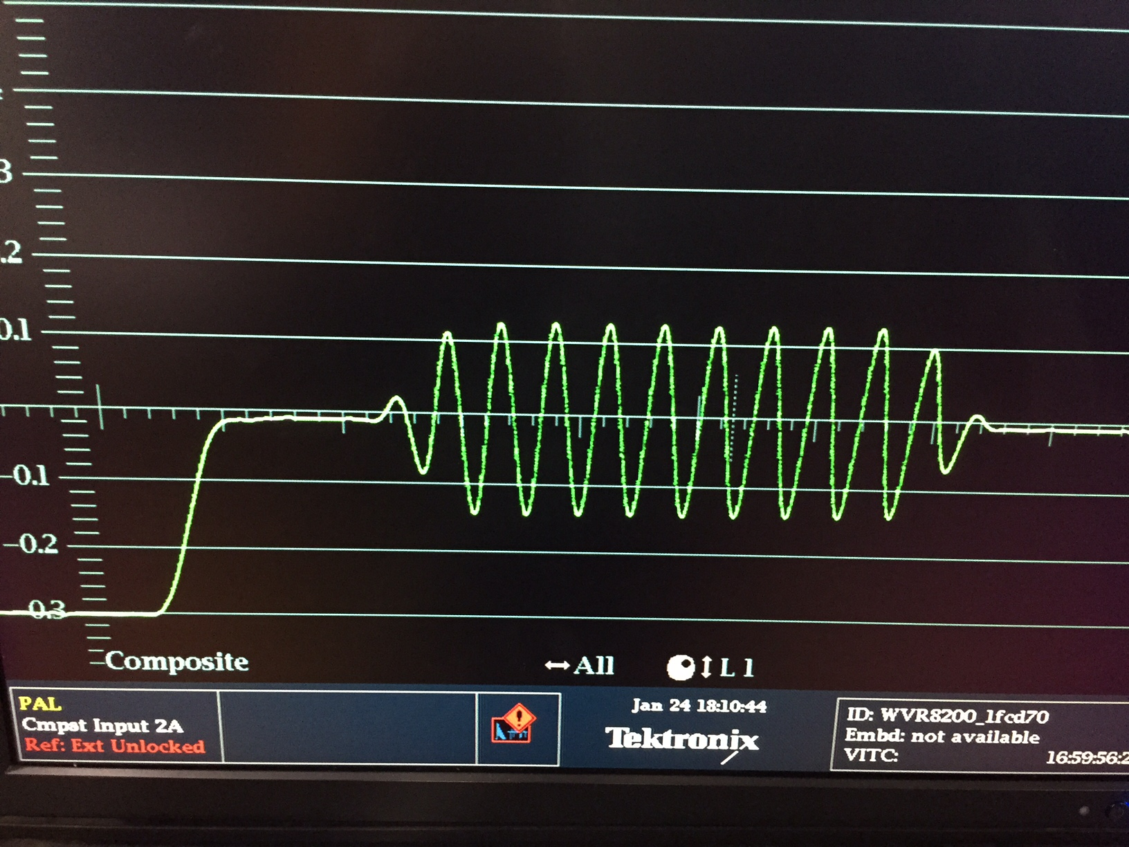 This is a picture of a black and burst signal on a waveform monitor. It is greatly zoomed in so that you can see the 10 cycles of the sub carrier.